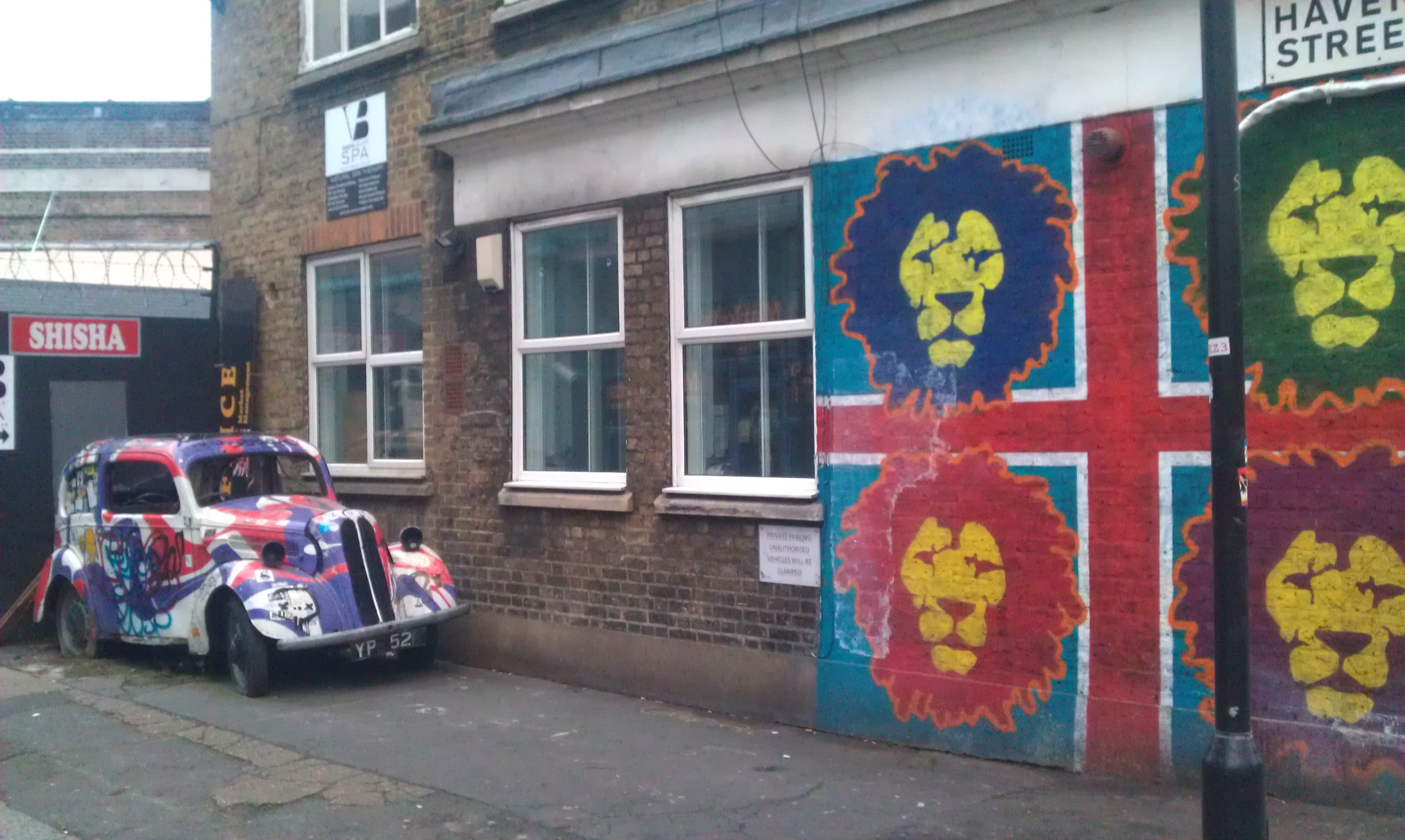 4 Lions graffiti & 70s Beetle, close to the Camden Open Market